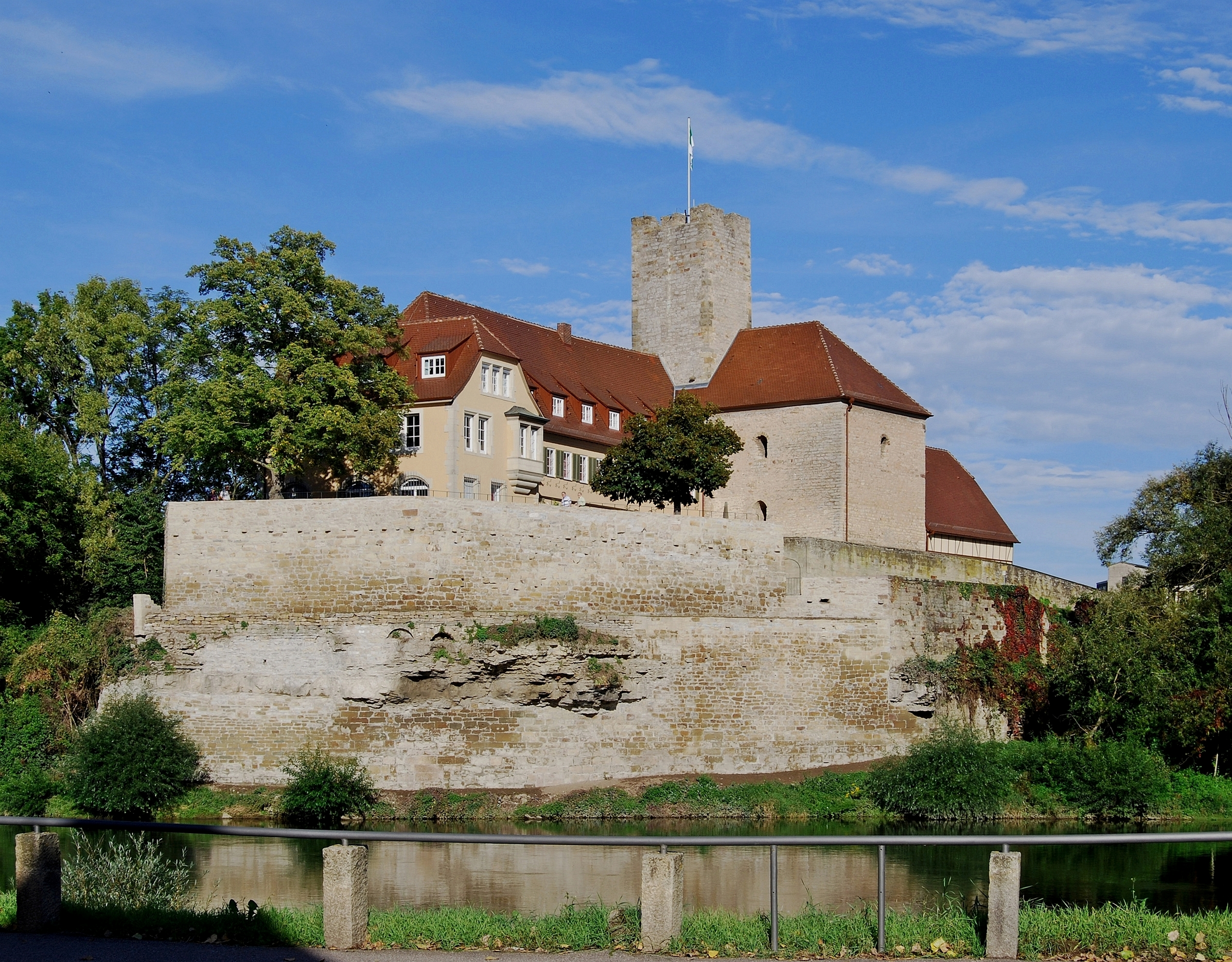 The town hall of Lauffen am Neckar, Germany.